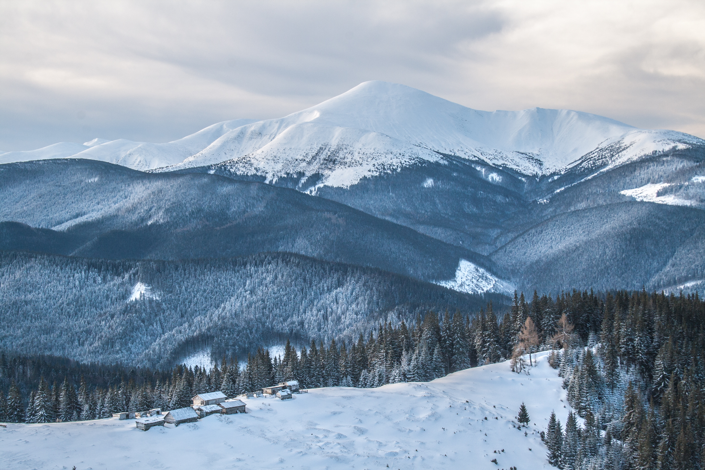 Hoverla, Carpathian National Nature Park, Ivano-Frankivsk Oblast, Ukraine